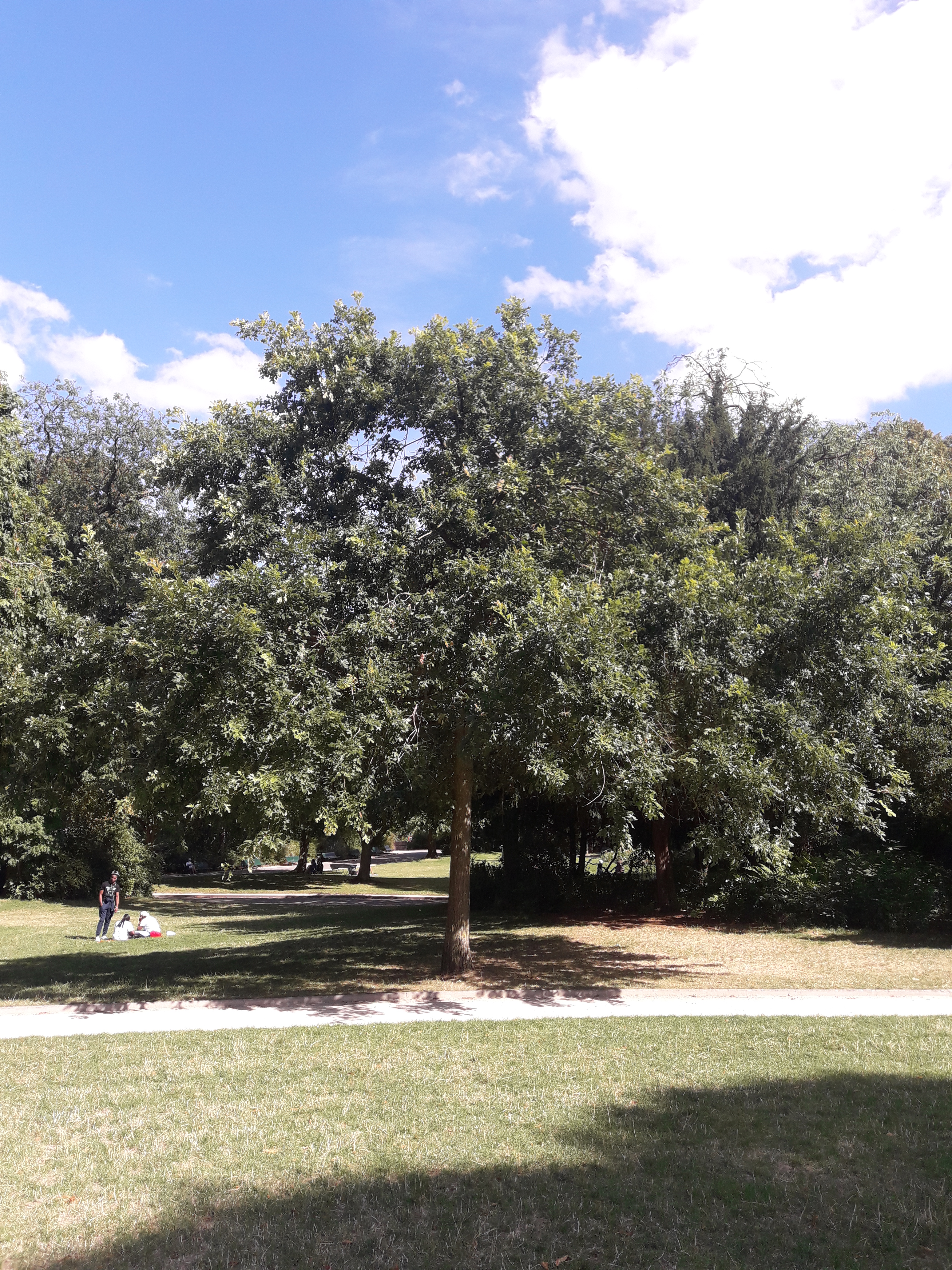 A Quercus macrocarpa at Parc Montsouris in Paris